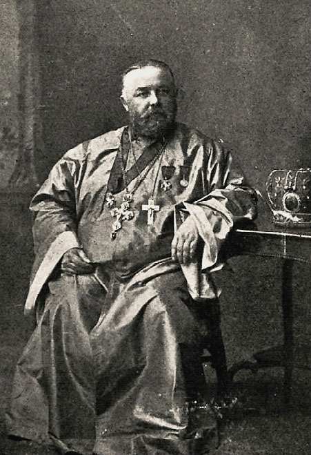 Alexis Toth (1853-1909)